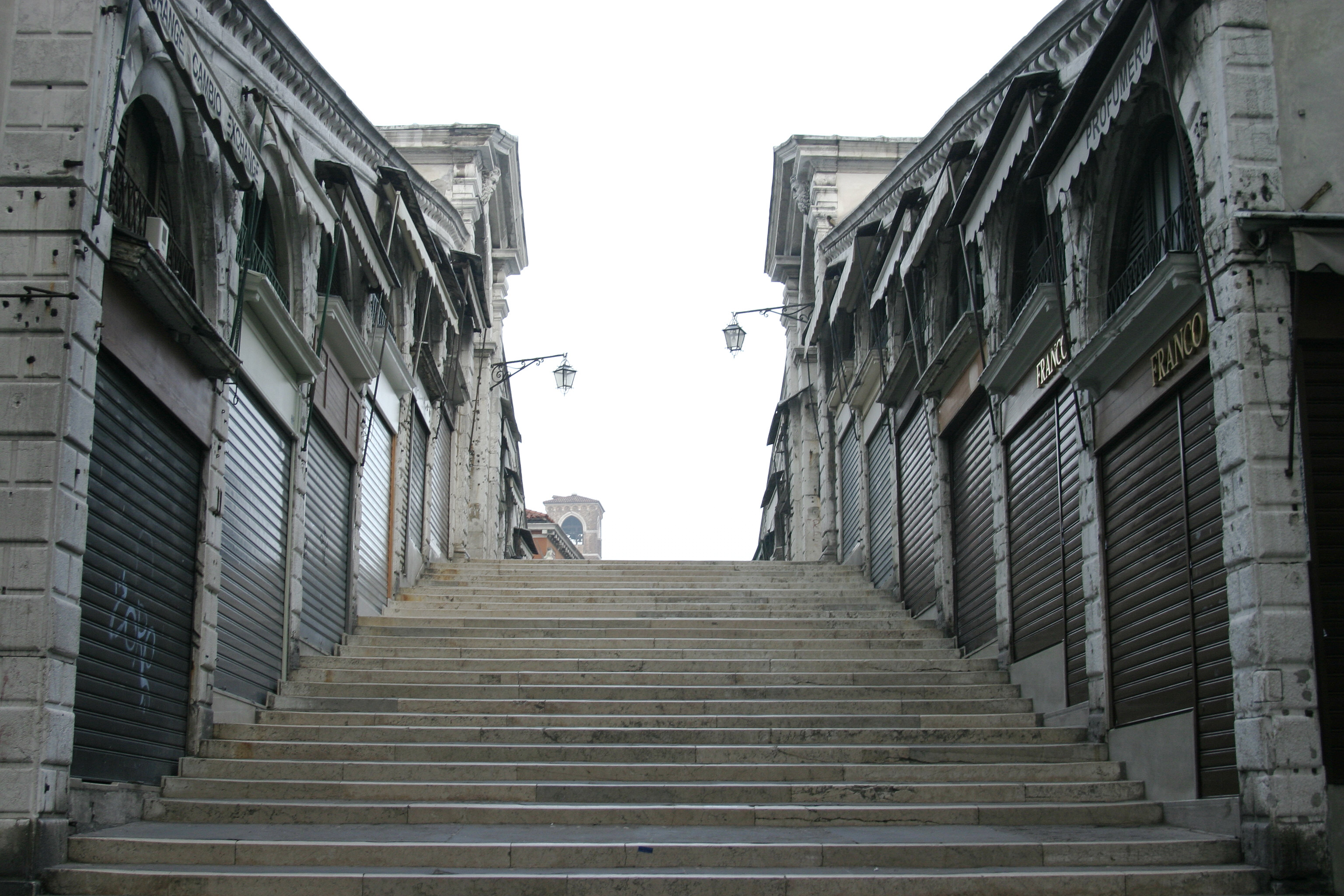 Venice - Rialto Bridge early in the morning